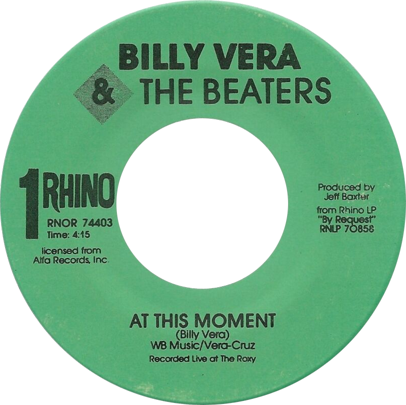 Side-A label of the 1986 US vinyl single re-release of "At This Moment" by Billy Vera and the Beaters